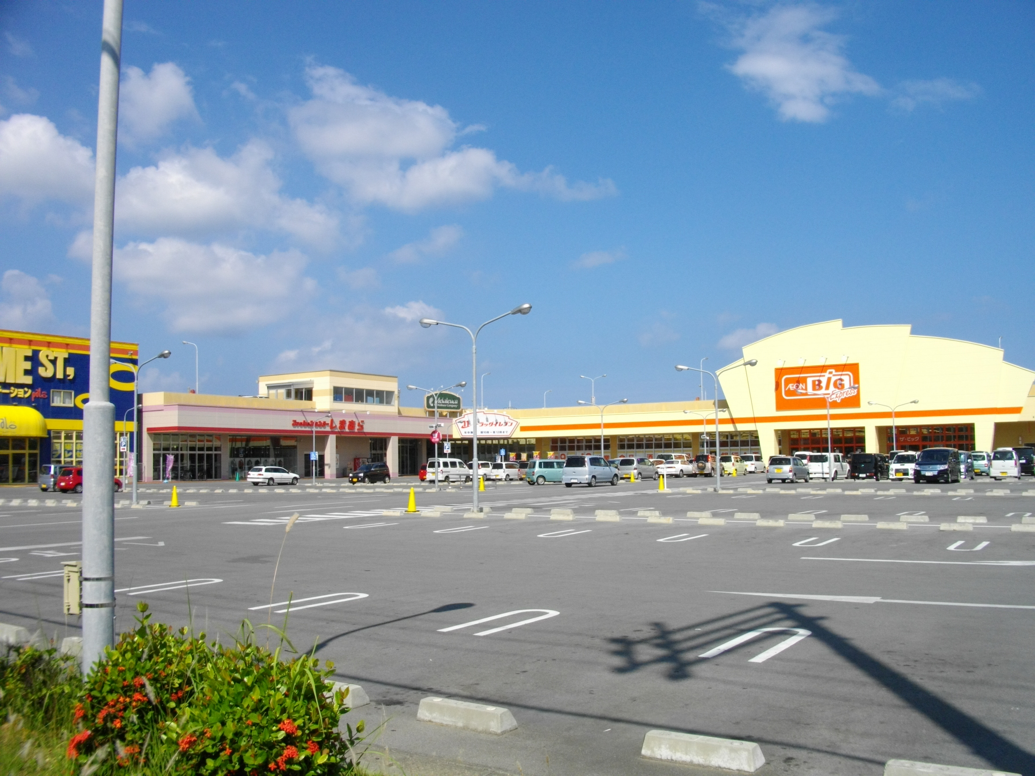 HANINS Ginowan